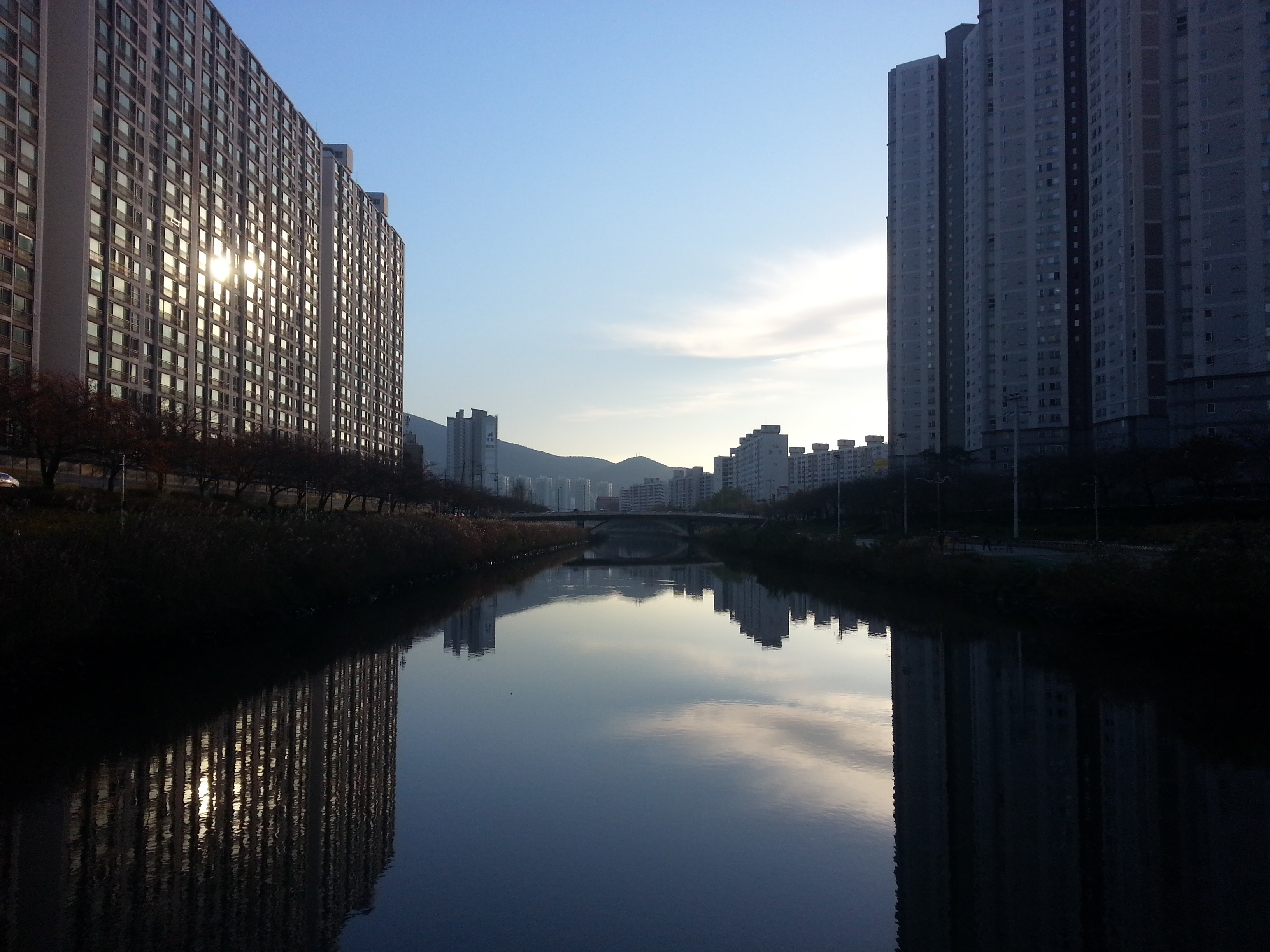 This is a reflection image of Onchonchon River which is located in Busan, South Korea.